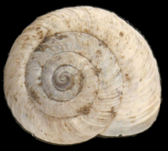 Apical view of the shell of Xerocrassa geyeri. Locality: Germany: near Fulda. Date: 01-12-1963.